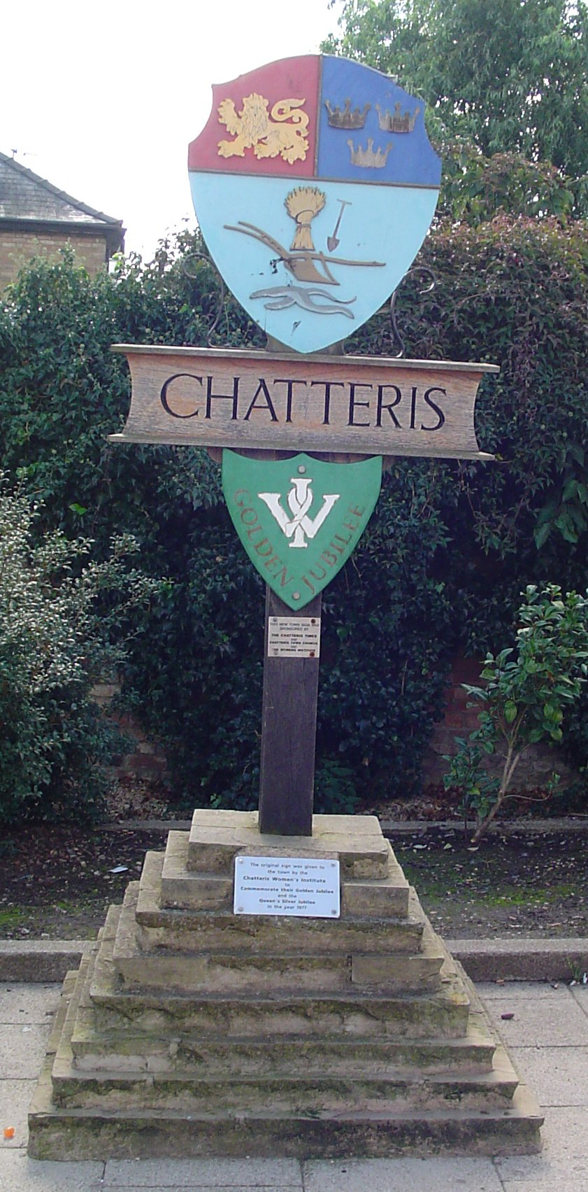 Signpost in Chatteris